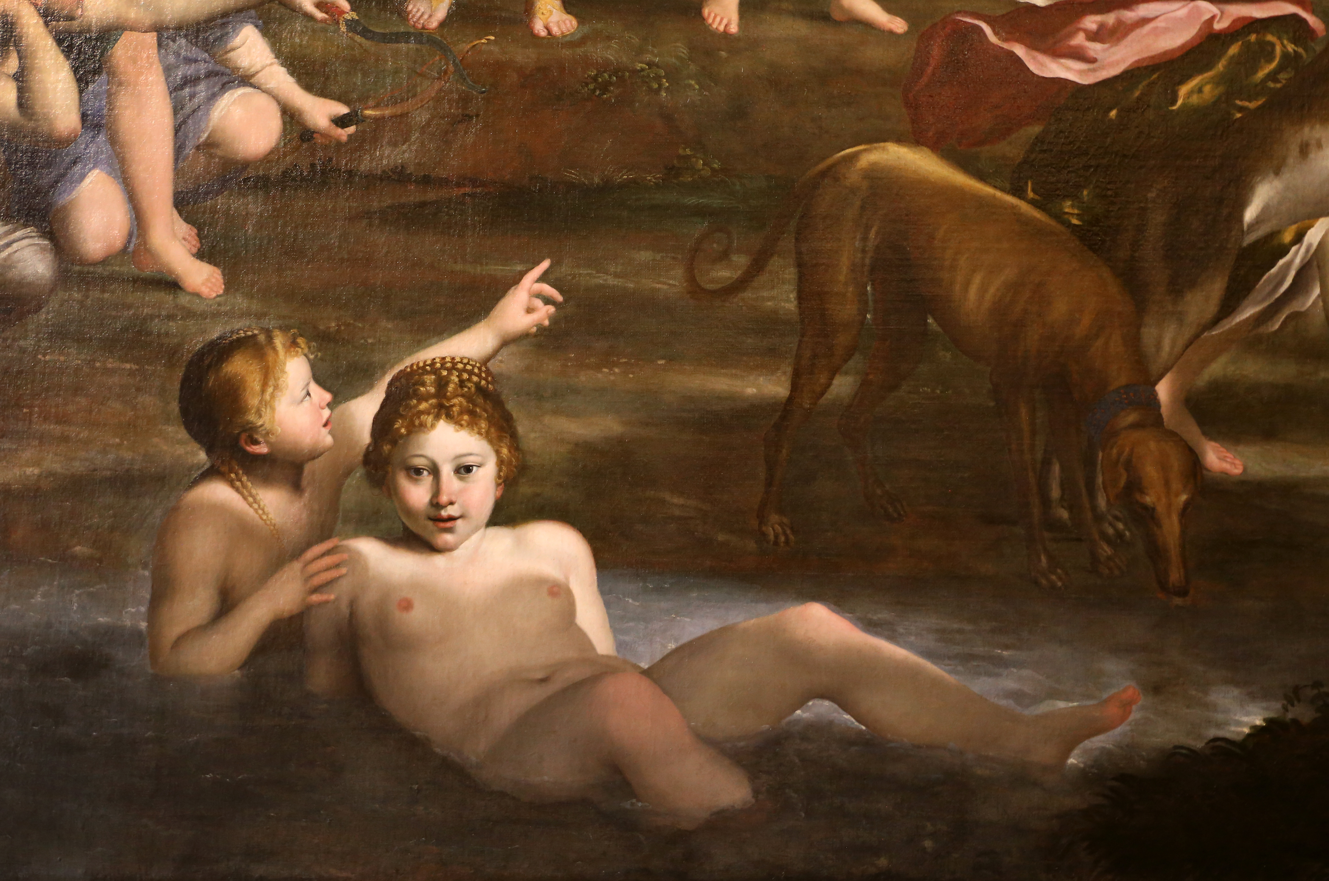 Paintings in Galleria Borghese (Rome)